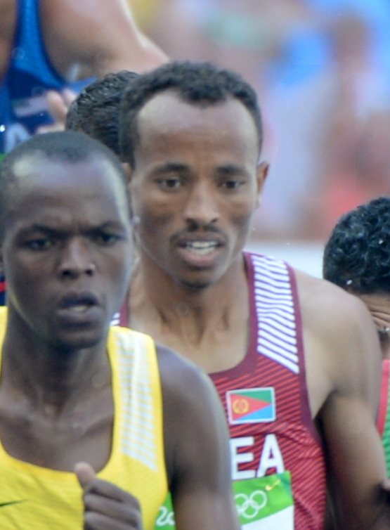 Yemane Haileselassie in the men's 3,000-meter steeplechase on Aug. 17 at the 2016 Rio Olympic Games in Rio de Janeiro. U.S. Army photo by Tim Hipps, IMCOM Public Affairs #SoldierOlympians #ArmyOlympians #ArmyTeam #GoArmy #TeamUSA #ArmyStrong #RoadToRio